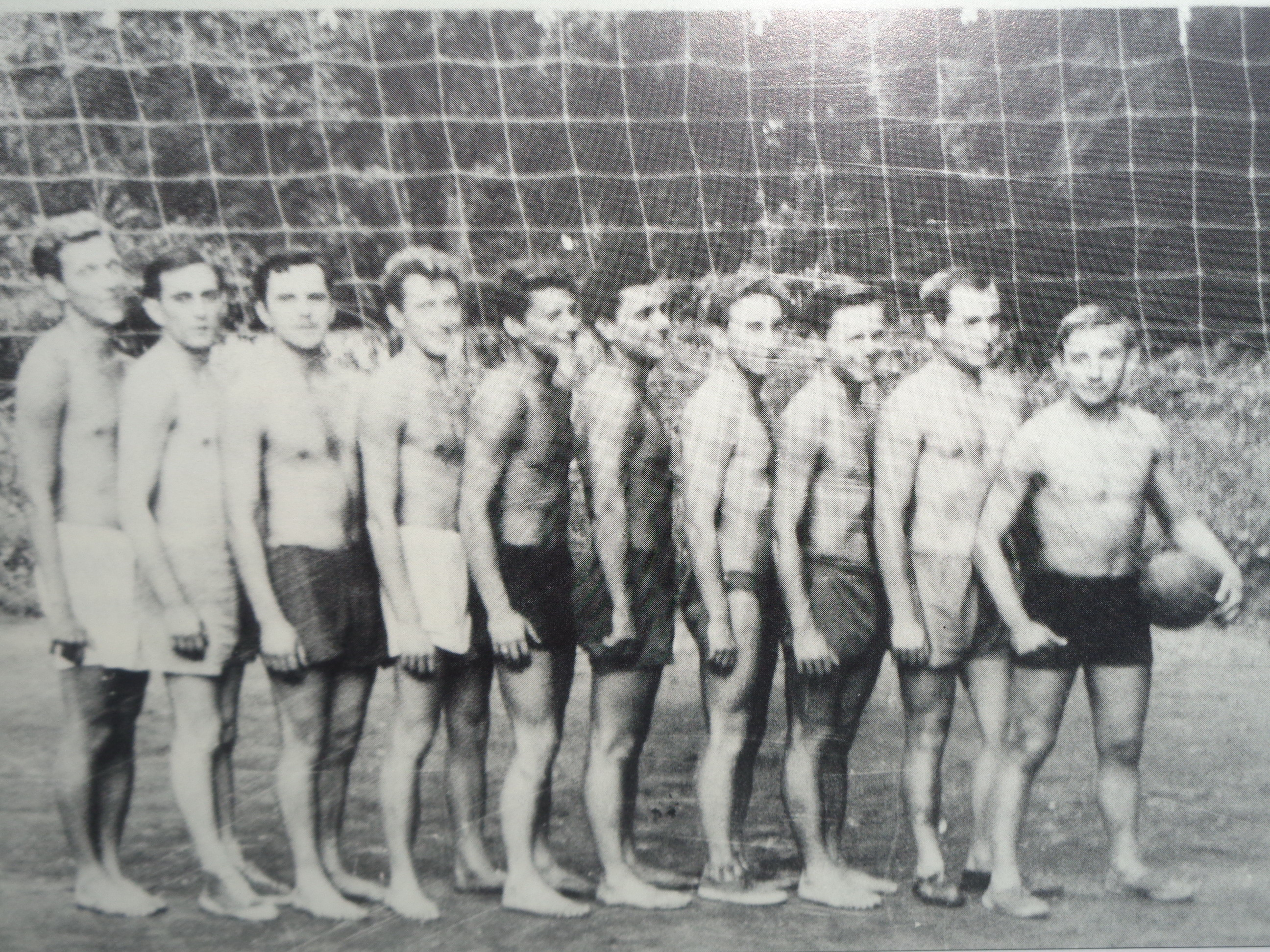 DTO "Partizan" volleyball team from 1960/61, Čakovec, Croatia